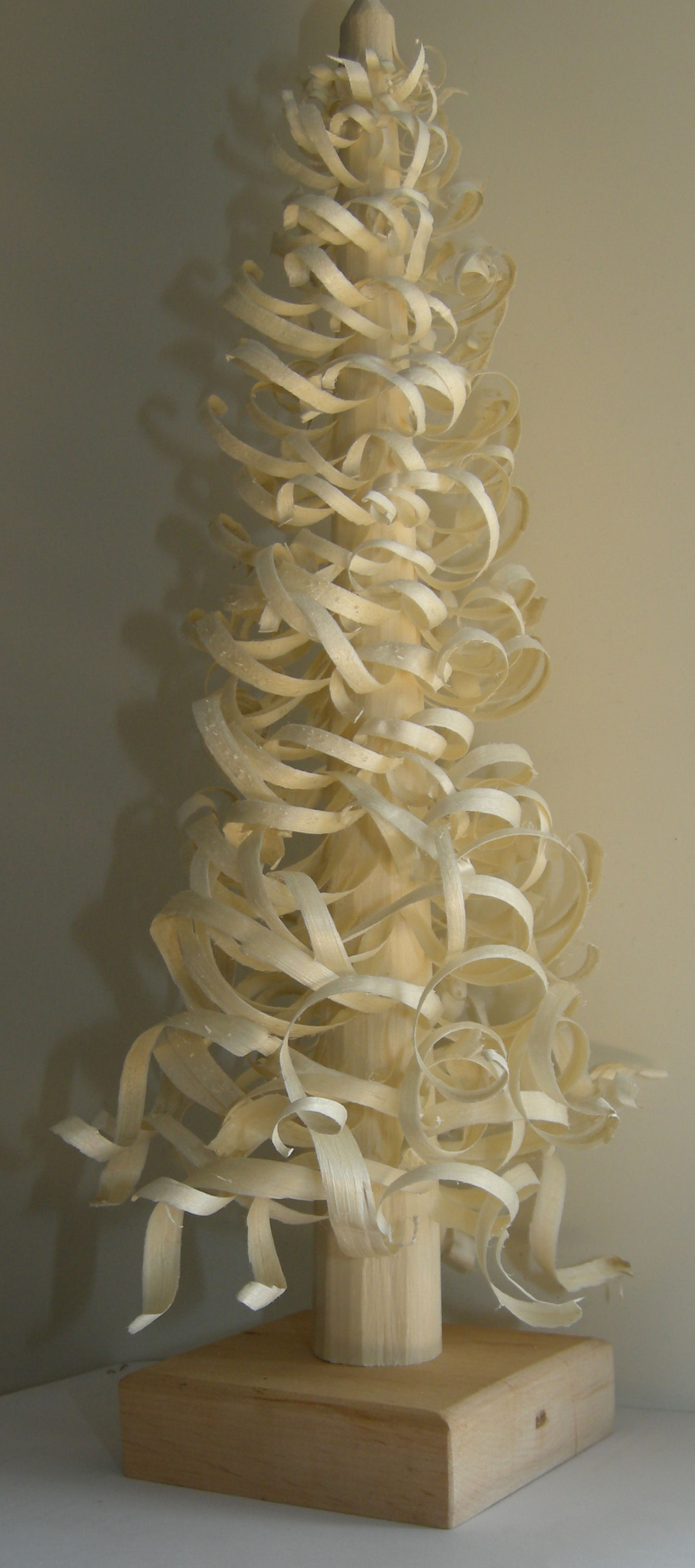 Lastukuusi, Christmas tree self made from wood